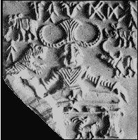 Indus Valley Seal showing Pashupati